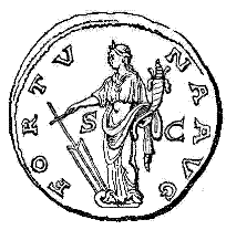 738 woodcuts illustrating the work A Dictionary of Roman Coins, Republican and Imperial (1889). To identify a coin please look at the filename to identify a page number, and check the Dictionary on numiswiki